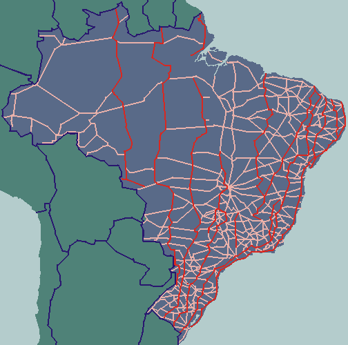 Map of longitunal highways in Brasil